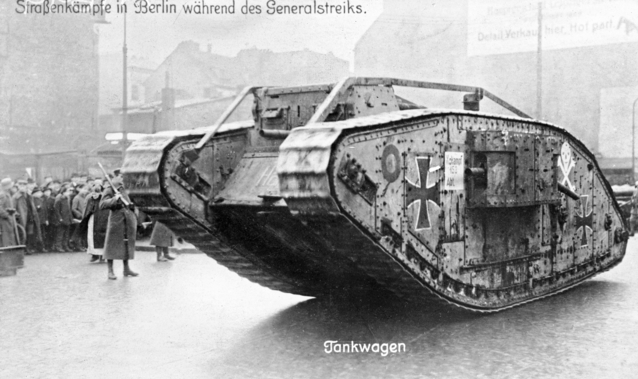 A captured British Mk IV female tank being used by the Government troops during the Sparticist's riots. Note the two German crosses and skull and crossbones on the side of the tank. The Spartacus League renamed itself the German Communist Party and called for a general strike of the workers in January 1919. A volunteer group of 3,000 former soldiers, called the Free Corps, was called in to restore order. They fought against the Red Front (Communist) soldiers in hand to hand combat on the streets of Berlin. The leaders of the Communists, Liebknecht and Luxemburg, were dragged from their hiding place and murdered in the Tiergarten park in the center of the city. Luxemburg's body was thrown into the Landwehr Canal. A monument to Luxemburg now stands in the Tiergarten.